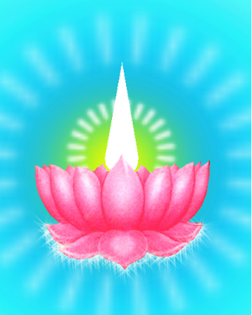 The lotus with the Holy Flame, sacred symbol of Ayyavalism.